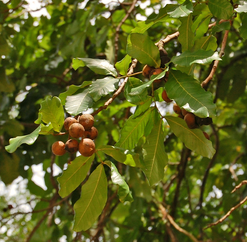 Schleichera oleosa, twig and fruits. Jakarta.